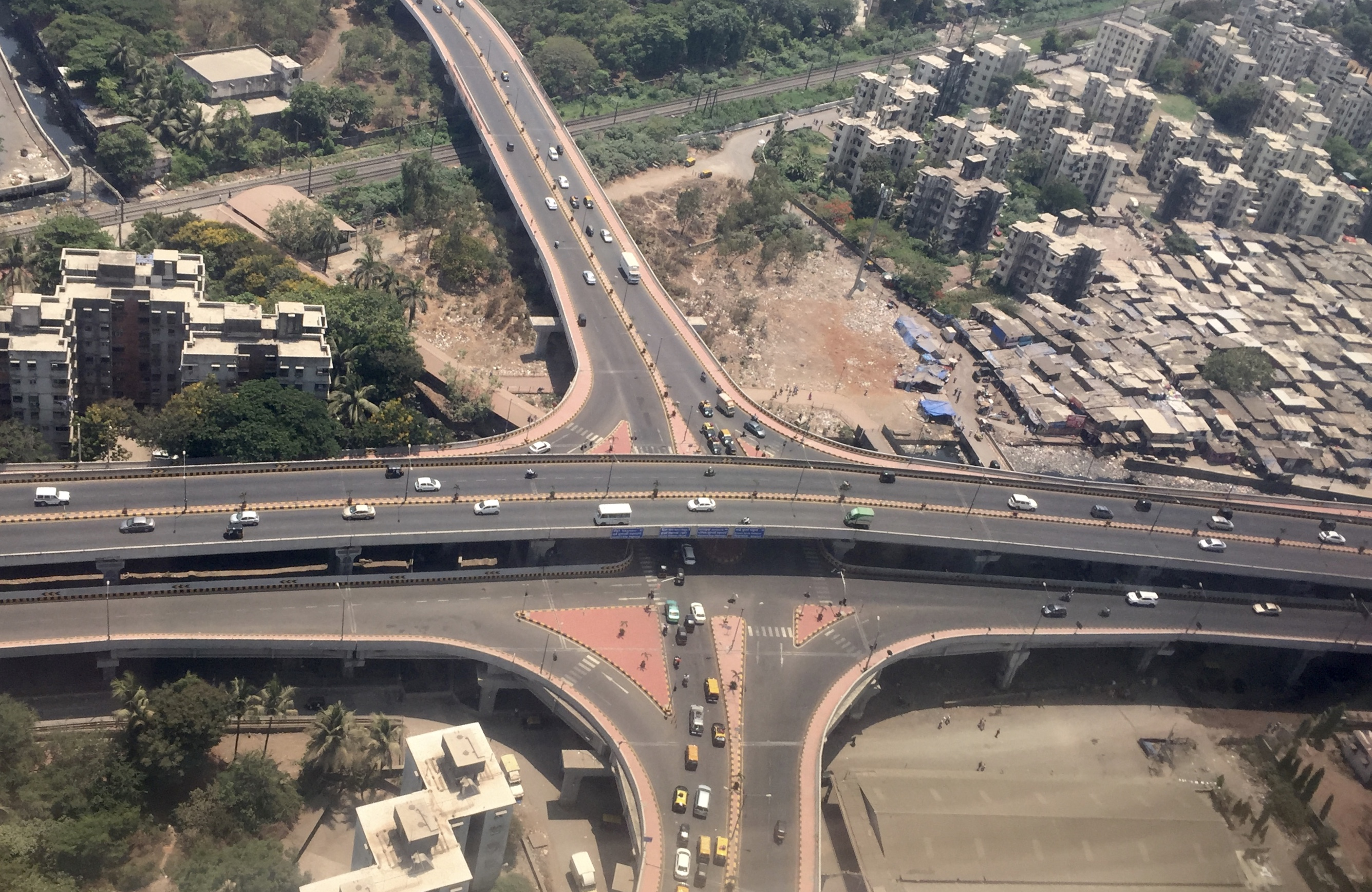 Aerial View of the Dual level flyover on the Santacruz Chamber Link Road in Mumbai, India.